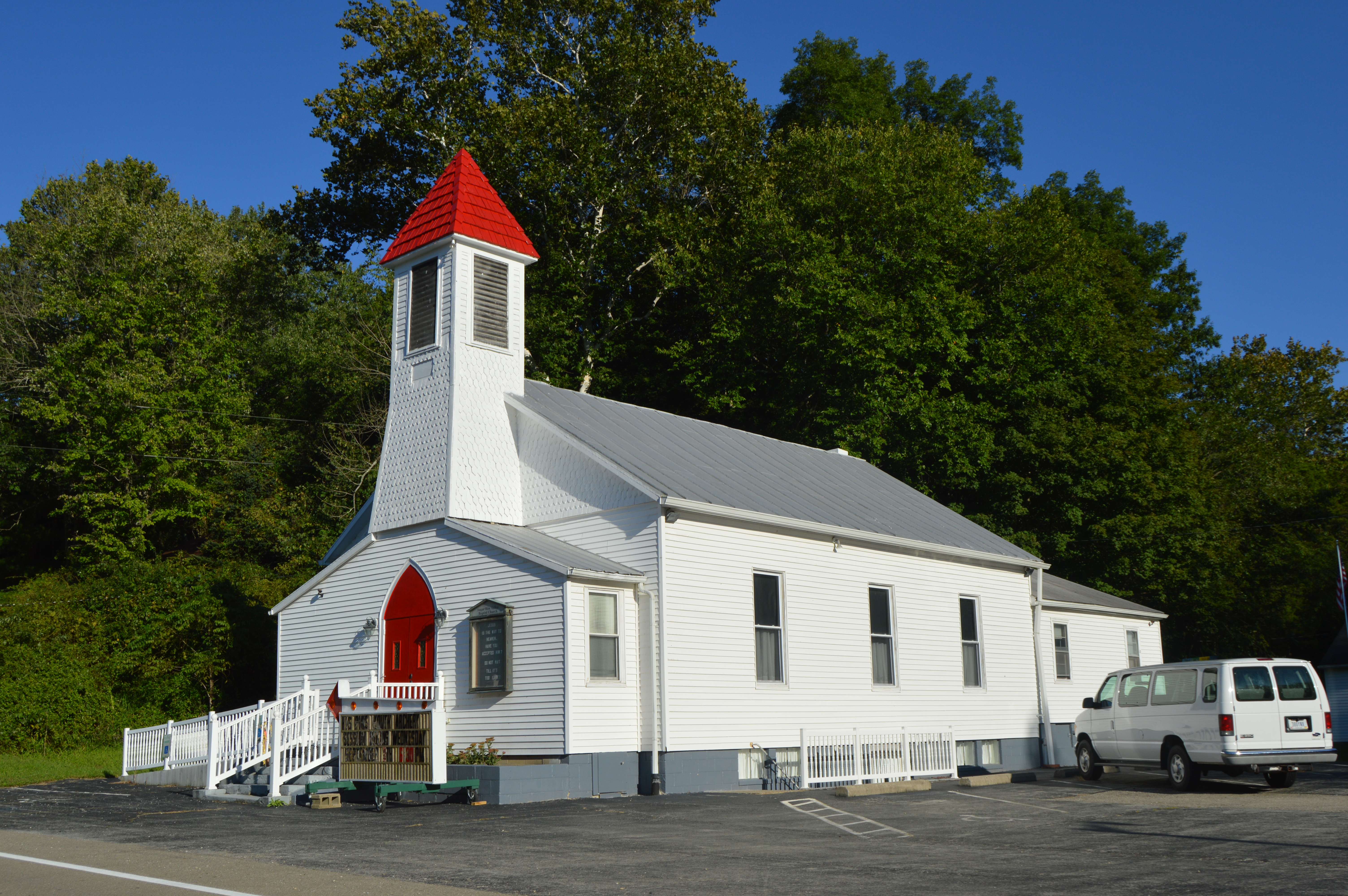 Front and western side of the Sugar Run Valley Baptist Church, located at 5886 State Route 132 northeast of Butlerville in Harlan Township, Warren County, Ohio, United States.